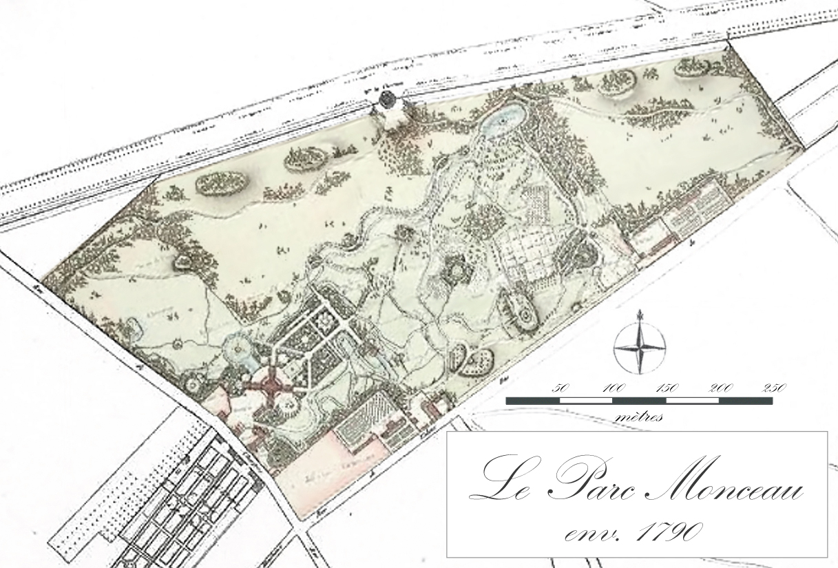 Map of the Parc Monceau in Paris ca. 1790